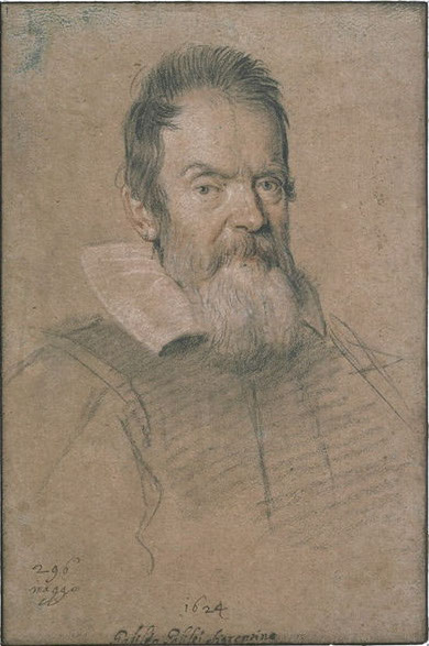 Galileo Galilei. Portrait by Ottavio Leoni.